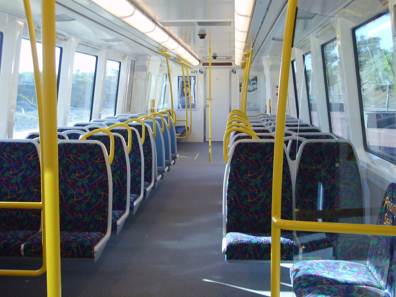 Interior of a Transperth B-series train at Clarkson, Western Australia.